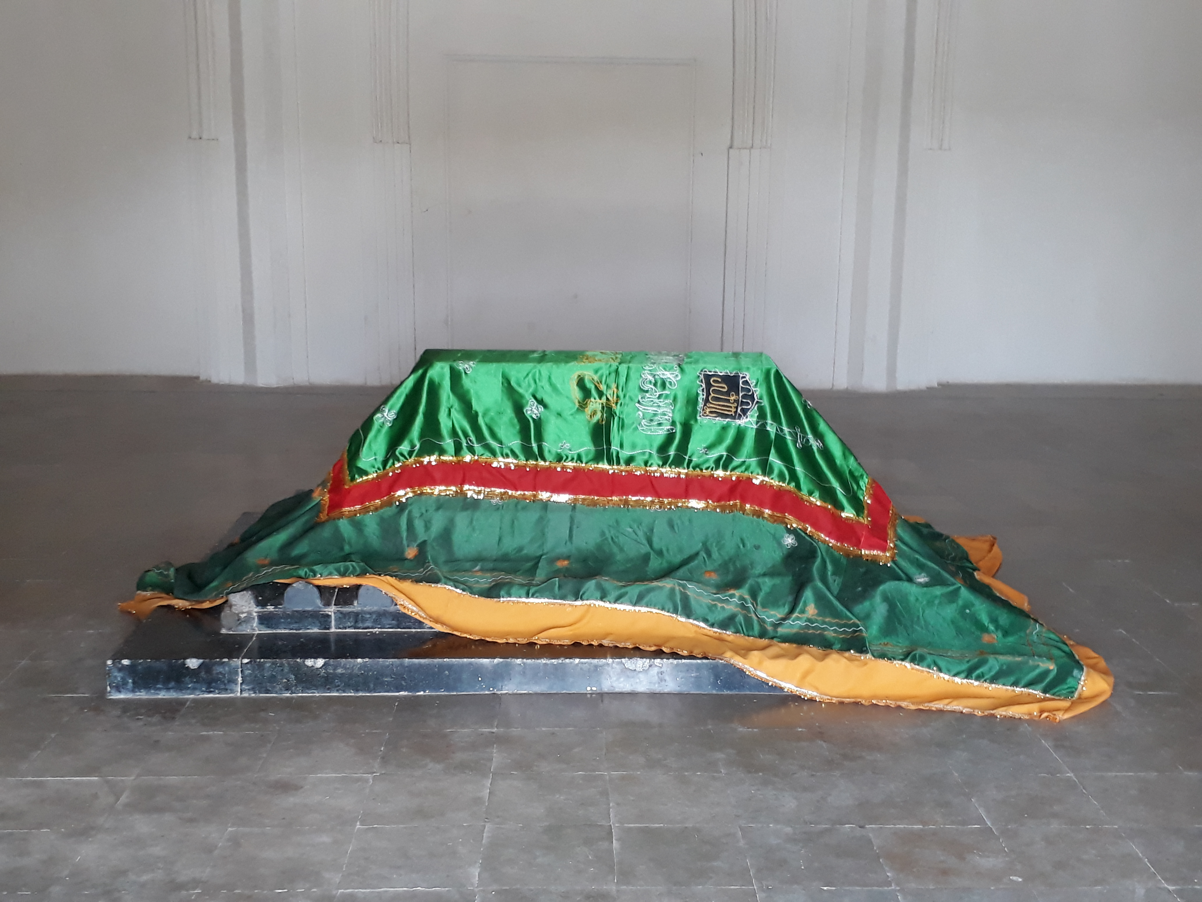 Tomb of Muhammad Quli Qutb Shah, Hyderabad, India